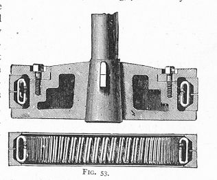 Fig. 53 Buckley's Patent Piston, a design of steam engine piston fitted with two sealing rings, sprung against the cylinder walls by the action of an internal spring.